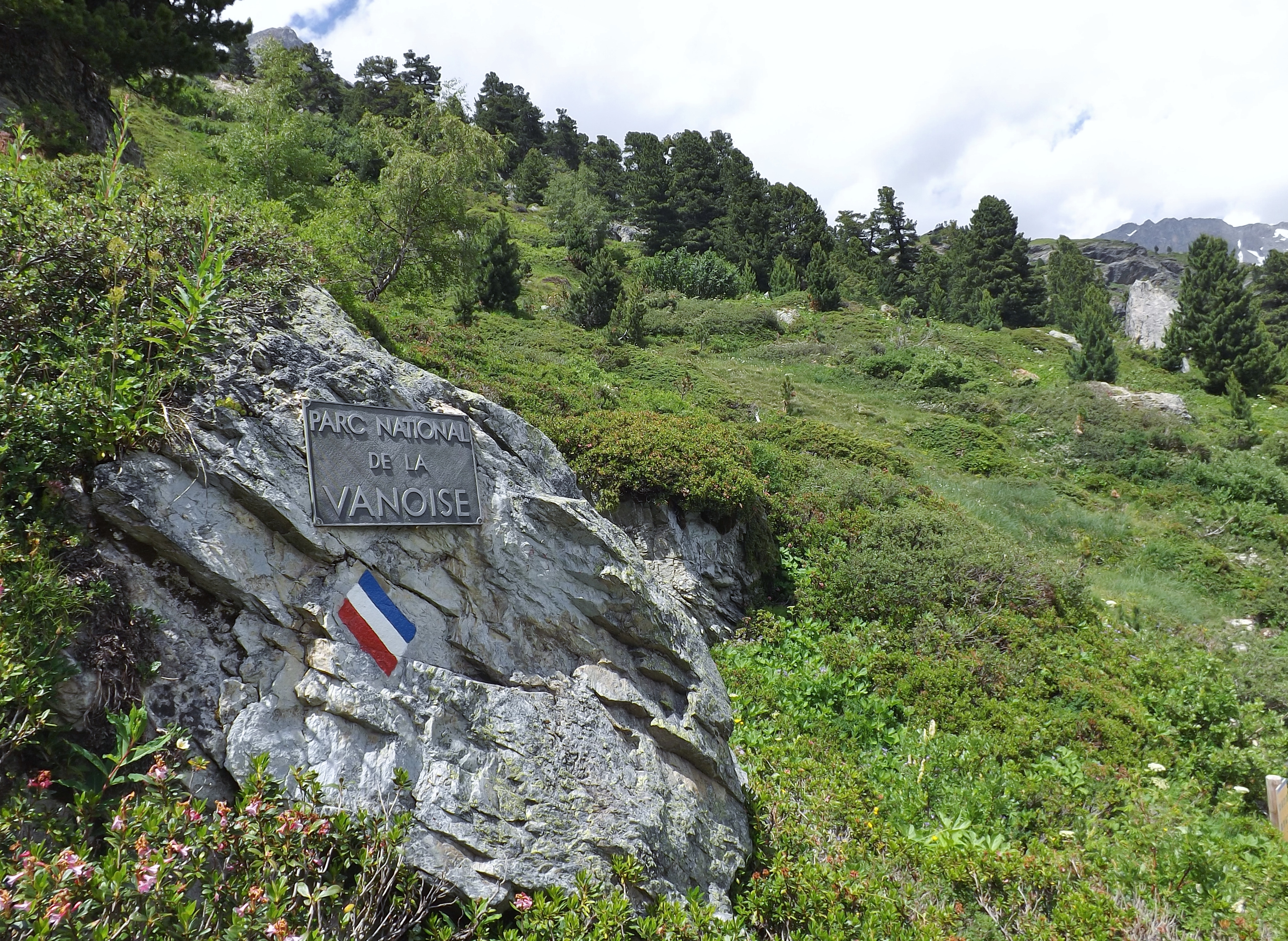 Plate on stone indicating the entrance into the 'heart' of the French Vanoise national park, here closed to the plan d'Amont lake and dam (about 2,100 meters high), in Aussois, Savoie.